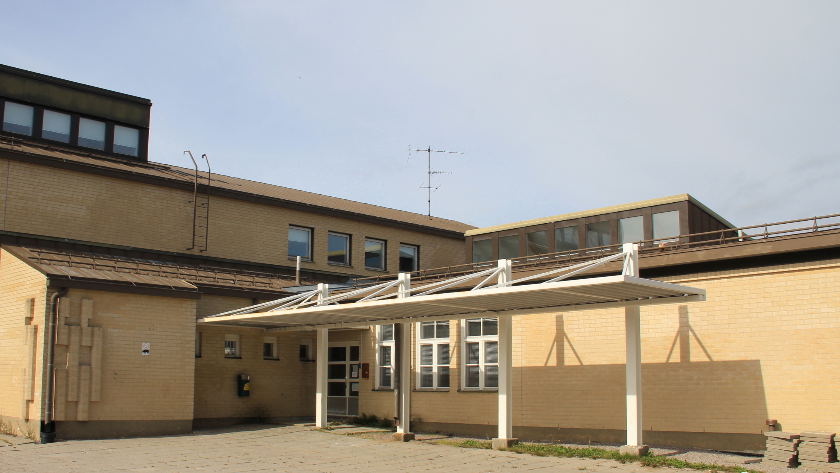 Nissiniku school lower grades in Masala, Kirkkonummi, Finland.